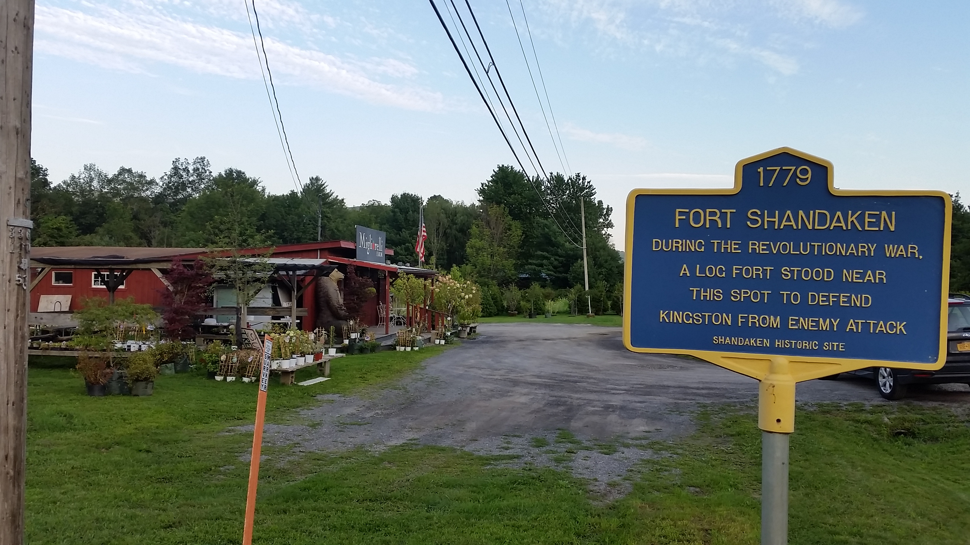 New York state historic marker for Fort Shandaken